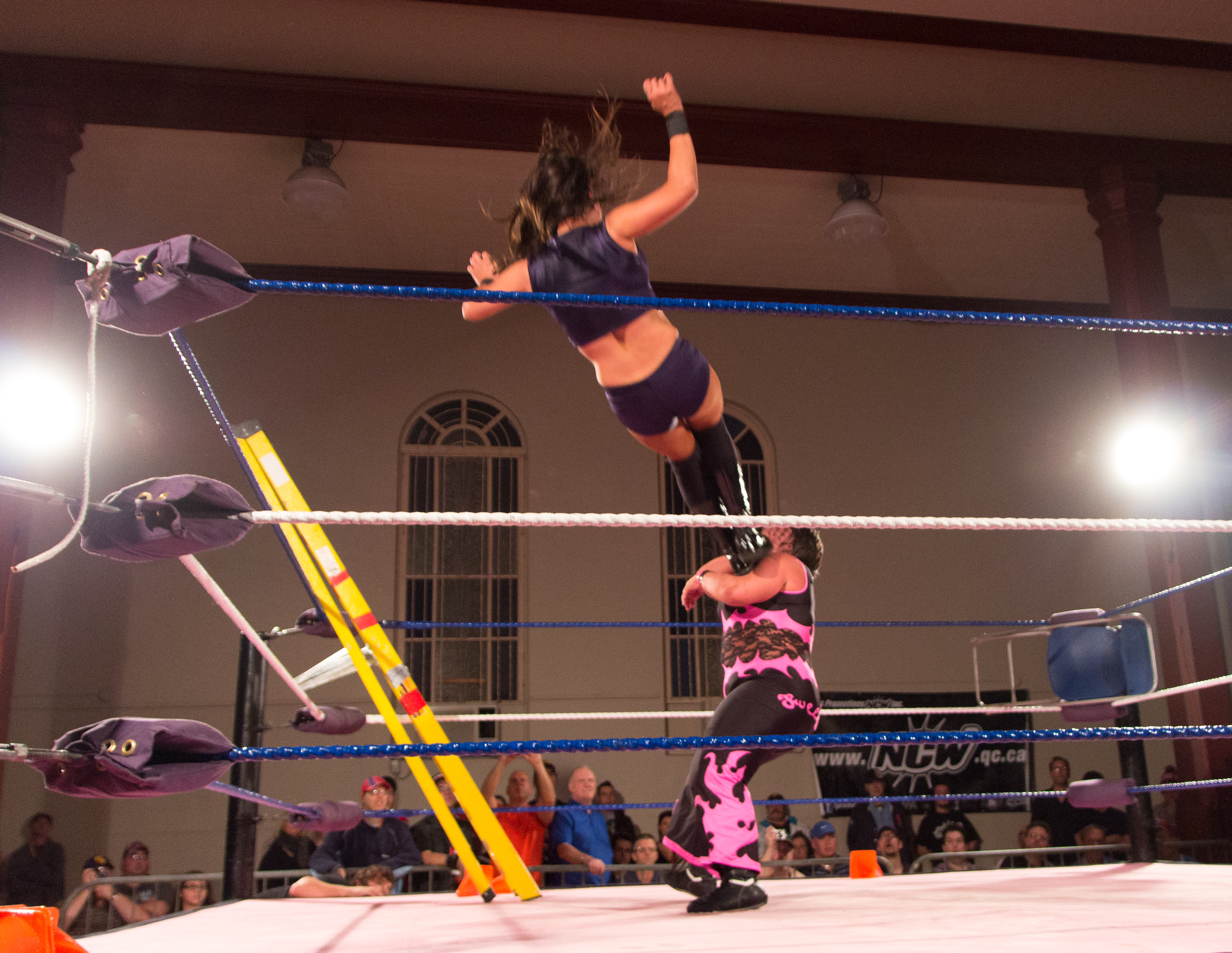 Cheerleader Melissa (top) hitting a missile dropkick on Sweet Cherie